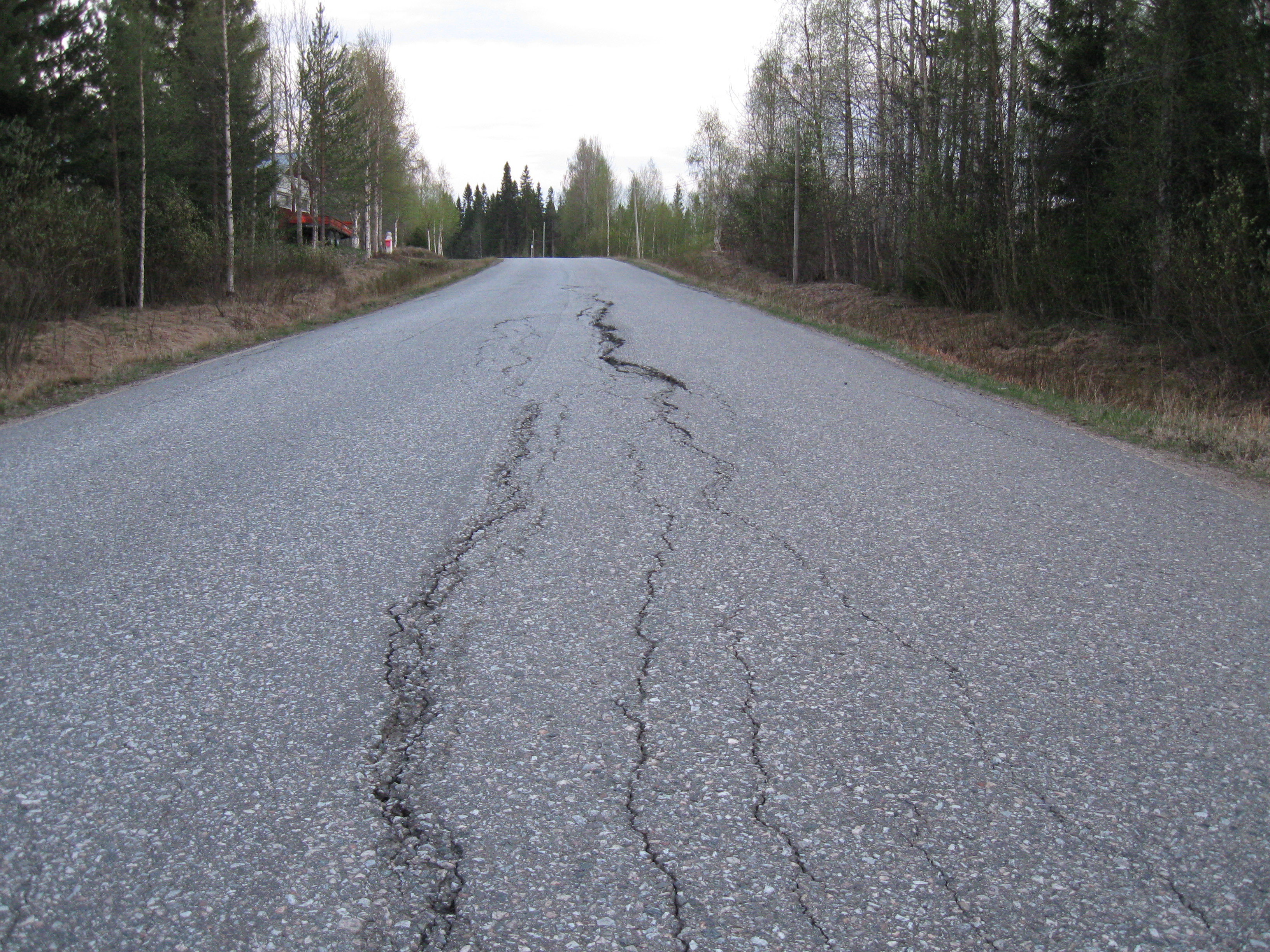 Damages caused by ground frost at the connecting road 8832 in Puolanka, Finland.